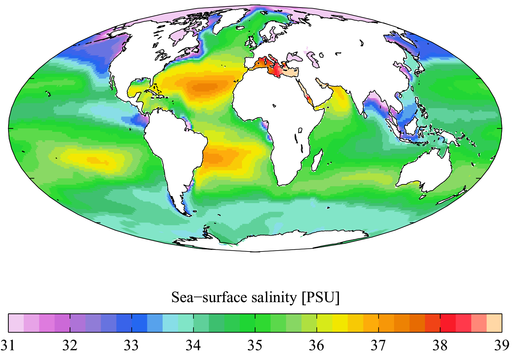 Annual mean sea surface salinity from the World Ocean Atlas 2005. Salinity here is in practical salinity units (PSU). It is plotted here using a Mollweide projection (using MATLAB and the M_Map package).